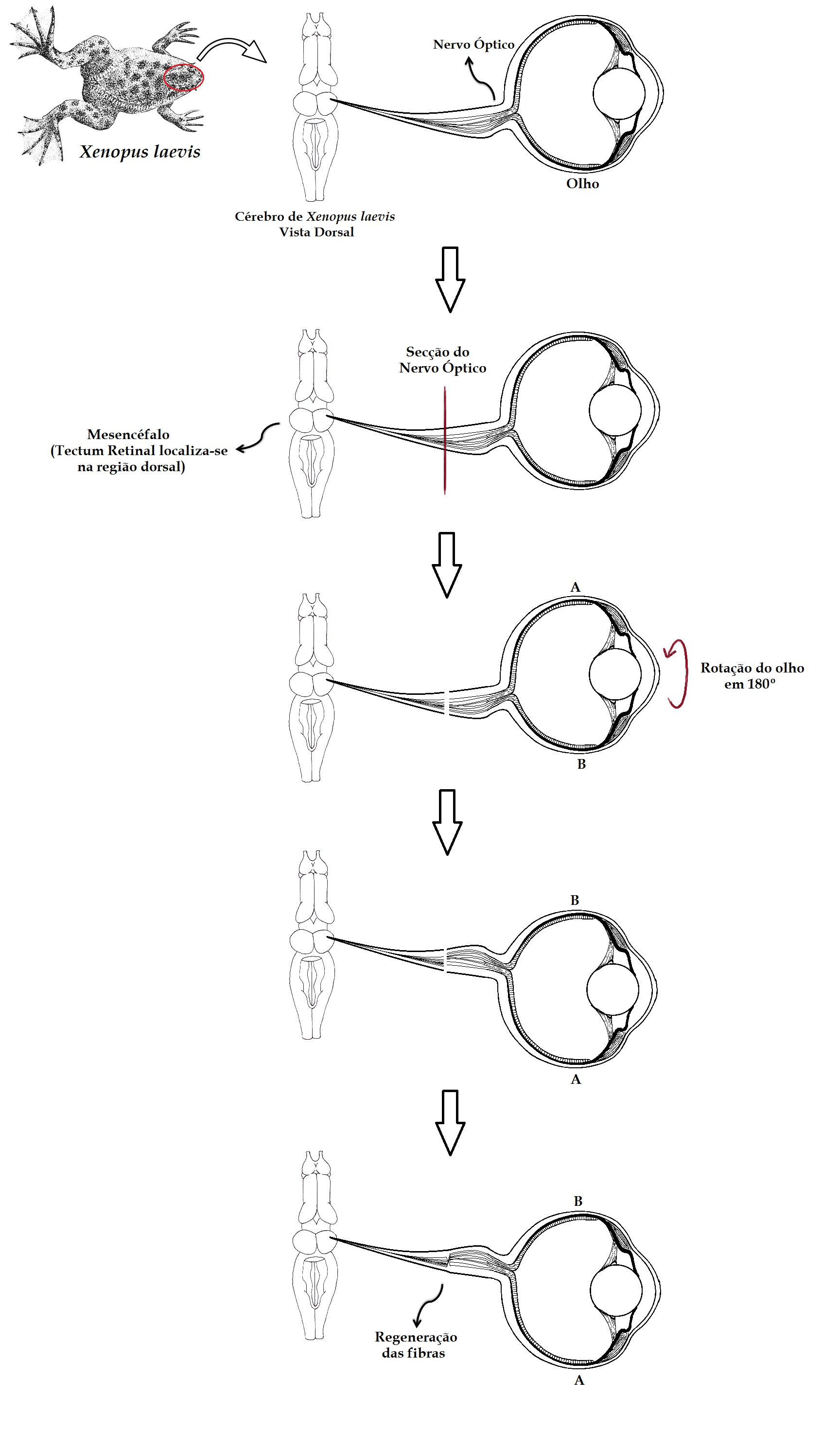 A synthetic step-by-step of the experiment tha Roger Sperry did to formulate the hypothesis of Chemoaffinity